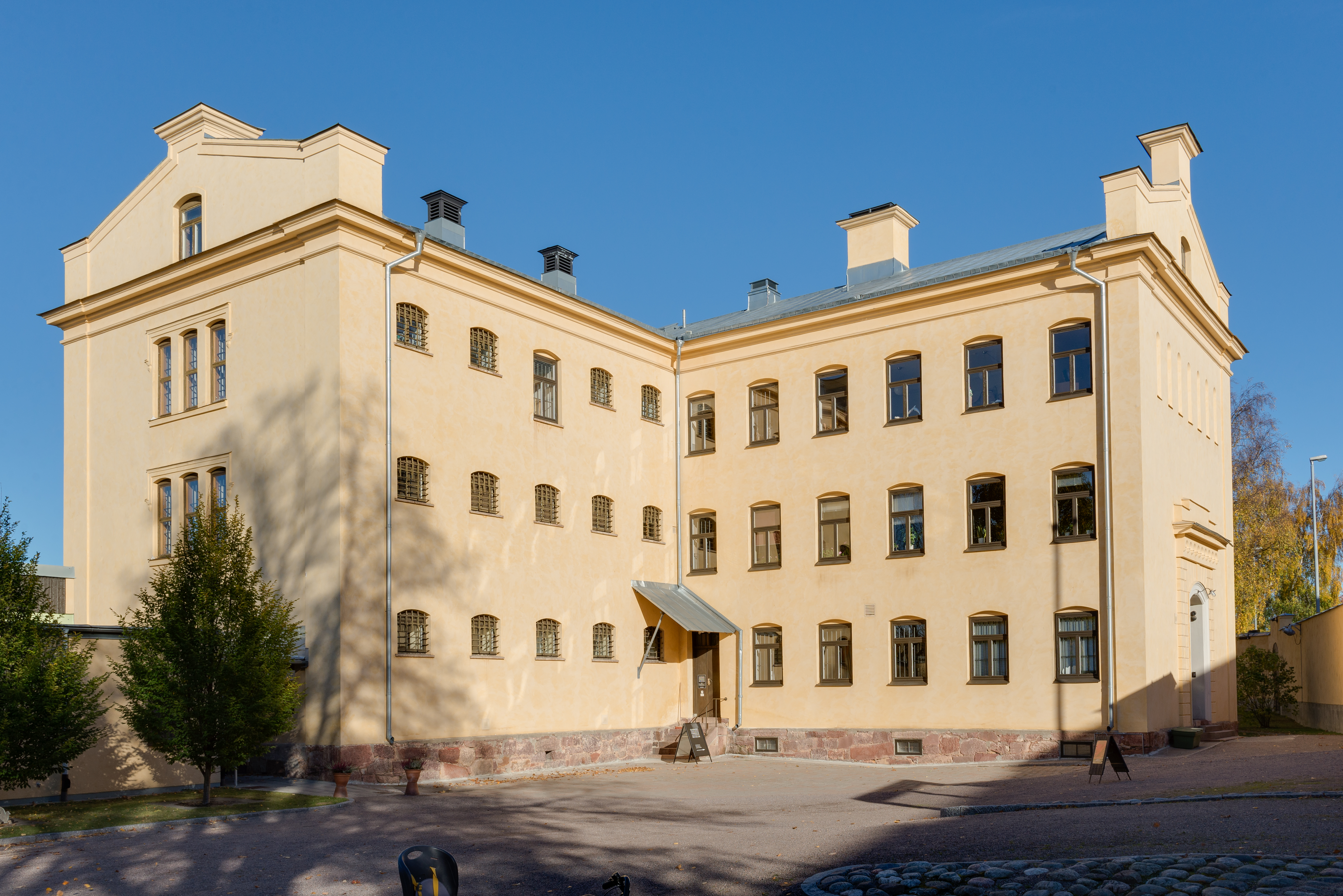 Länsfängelse (County prison), Gävle. Today a museum.